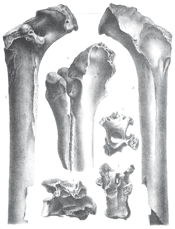 Bones of the terror bird Mesembriornis, as imaged by Moreno & Mercerat in 1891.